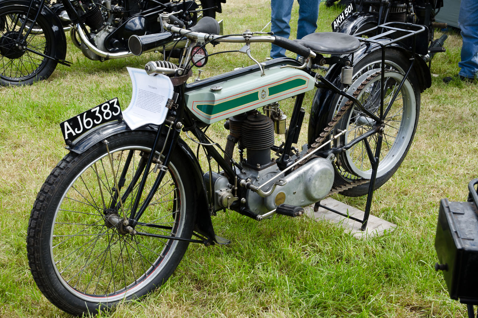 Heskin Hall Steam Fair 02/06/2013